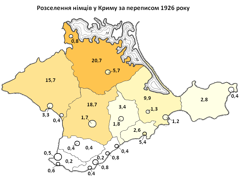 Percentage of germans in Crimea according to 1926 census